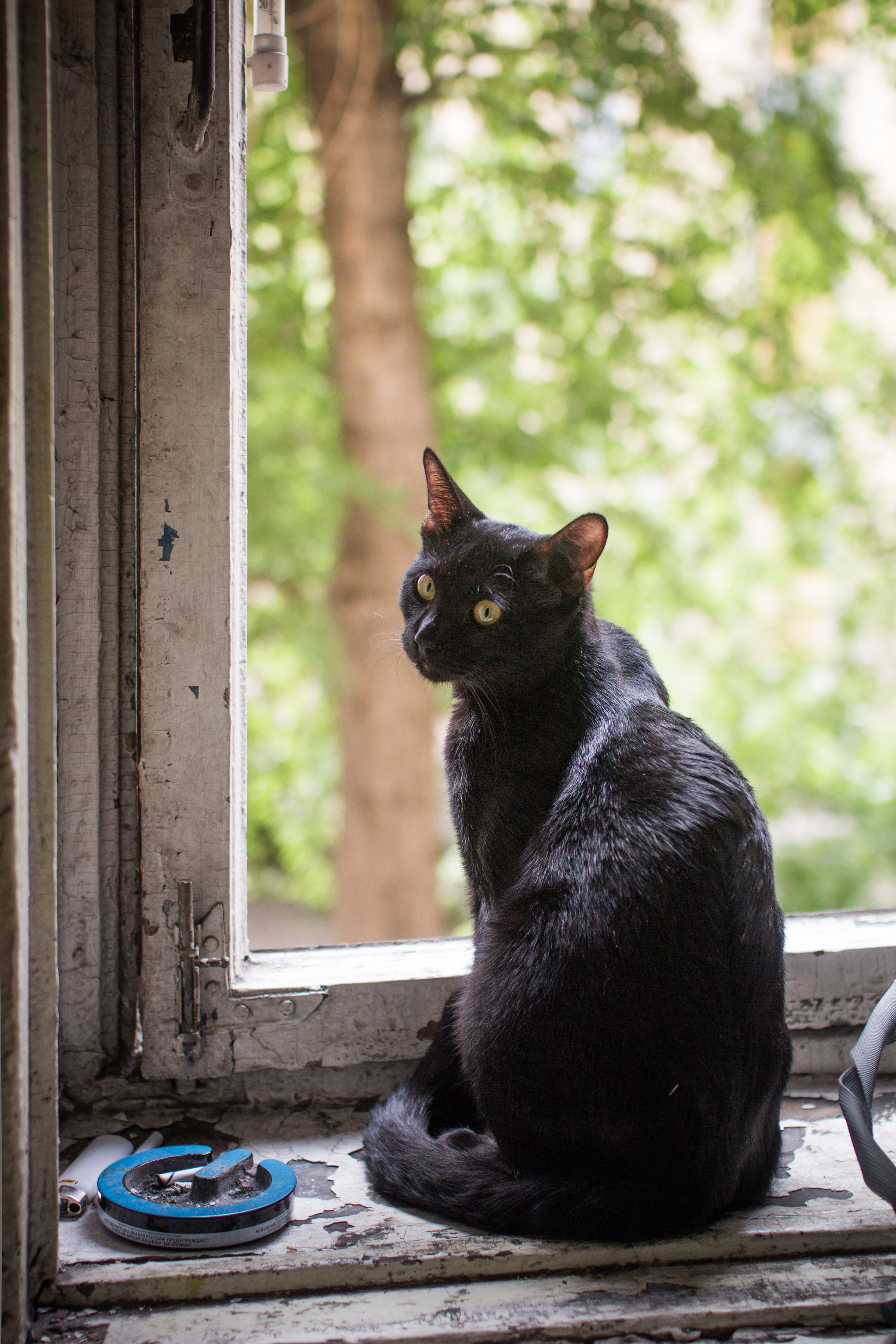 A cat in communal flat in Saint Petersburg